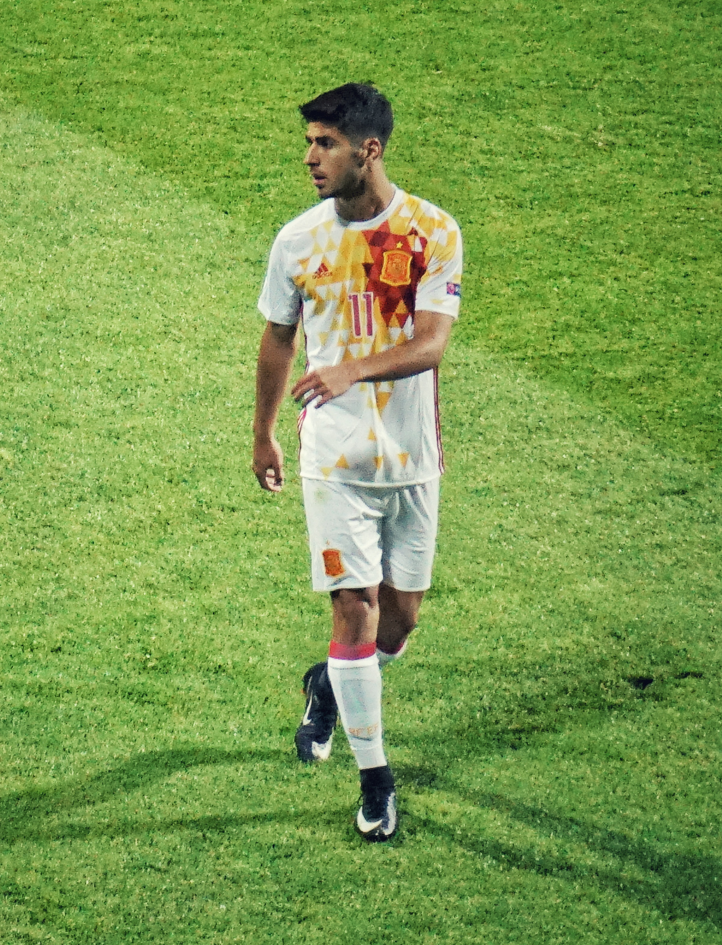 Marco Asensio during UEFA European Under-21 Championships game between Portugal and Spain on 20 June 2017 in Gdynia, Poland.